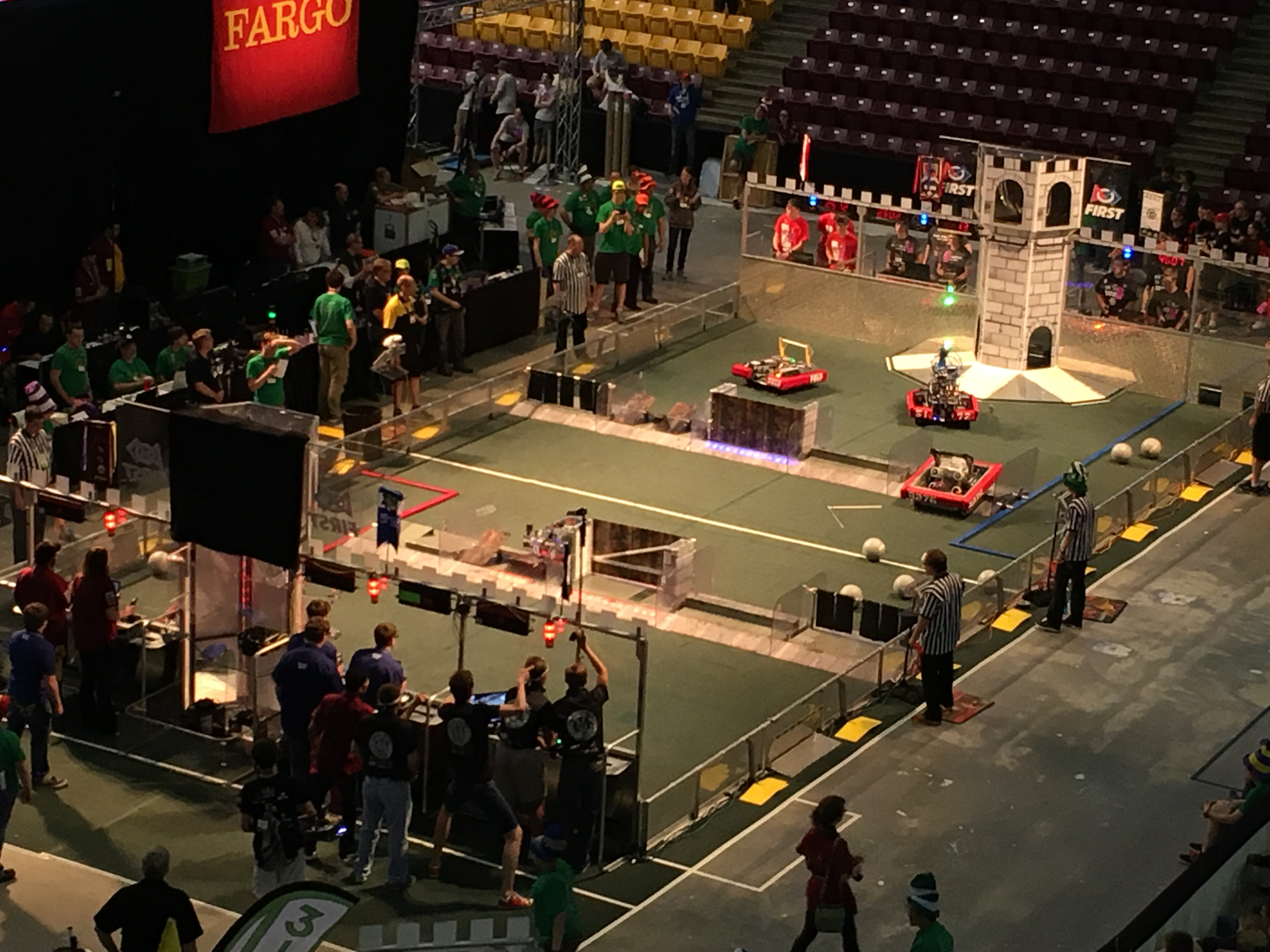 View of the field for the 2016 FIRST Stronghold Minnesota state tournament at Marriuchi Arena